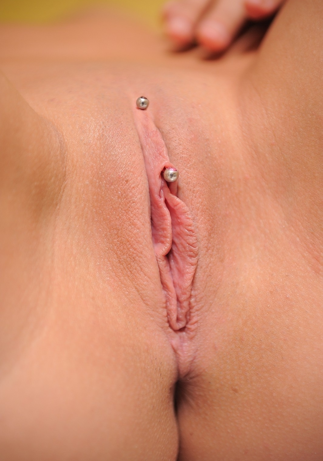 Deep Clitoral Hood Piercing - like regular VCH, just that the upper ball of the barbell is situated higher